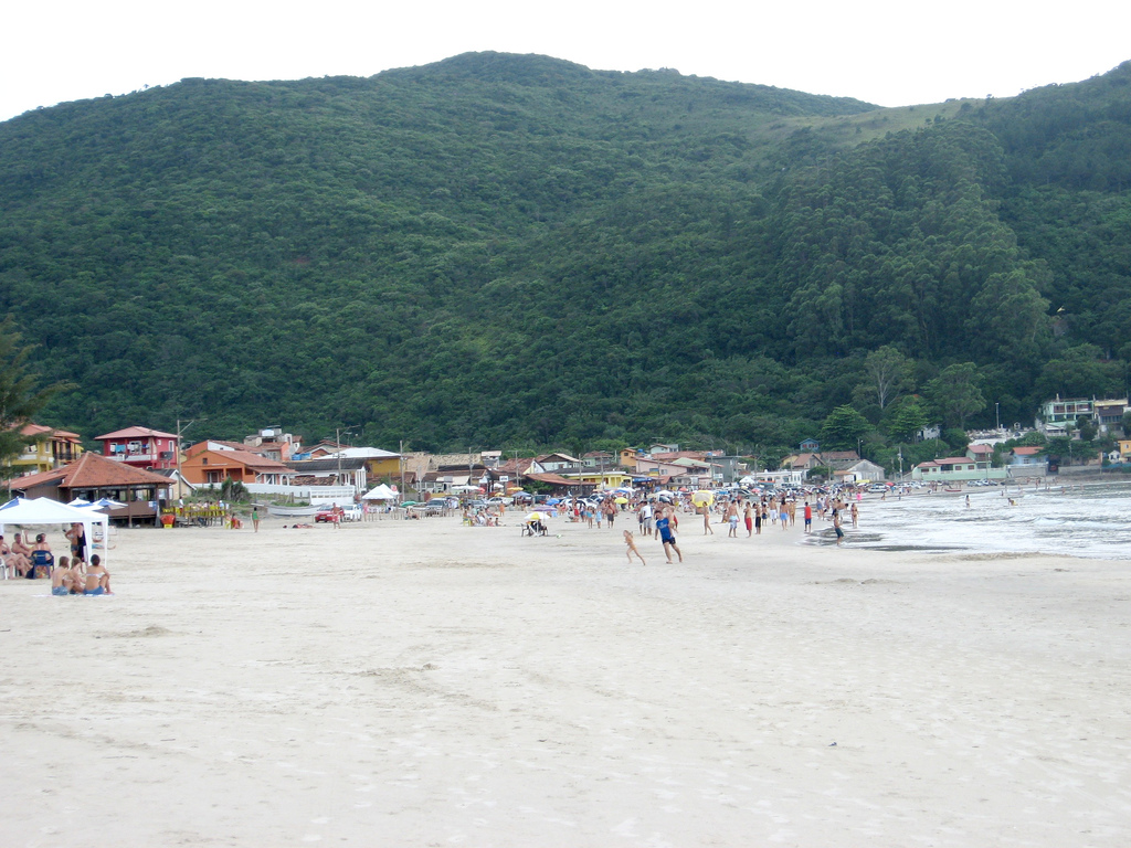 Pântano do Sul Beach